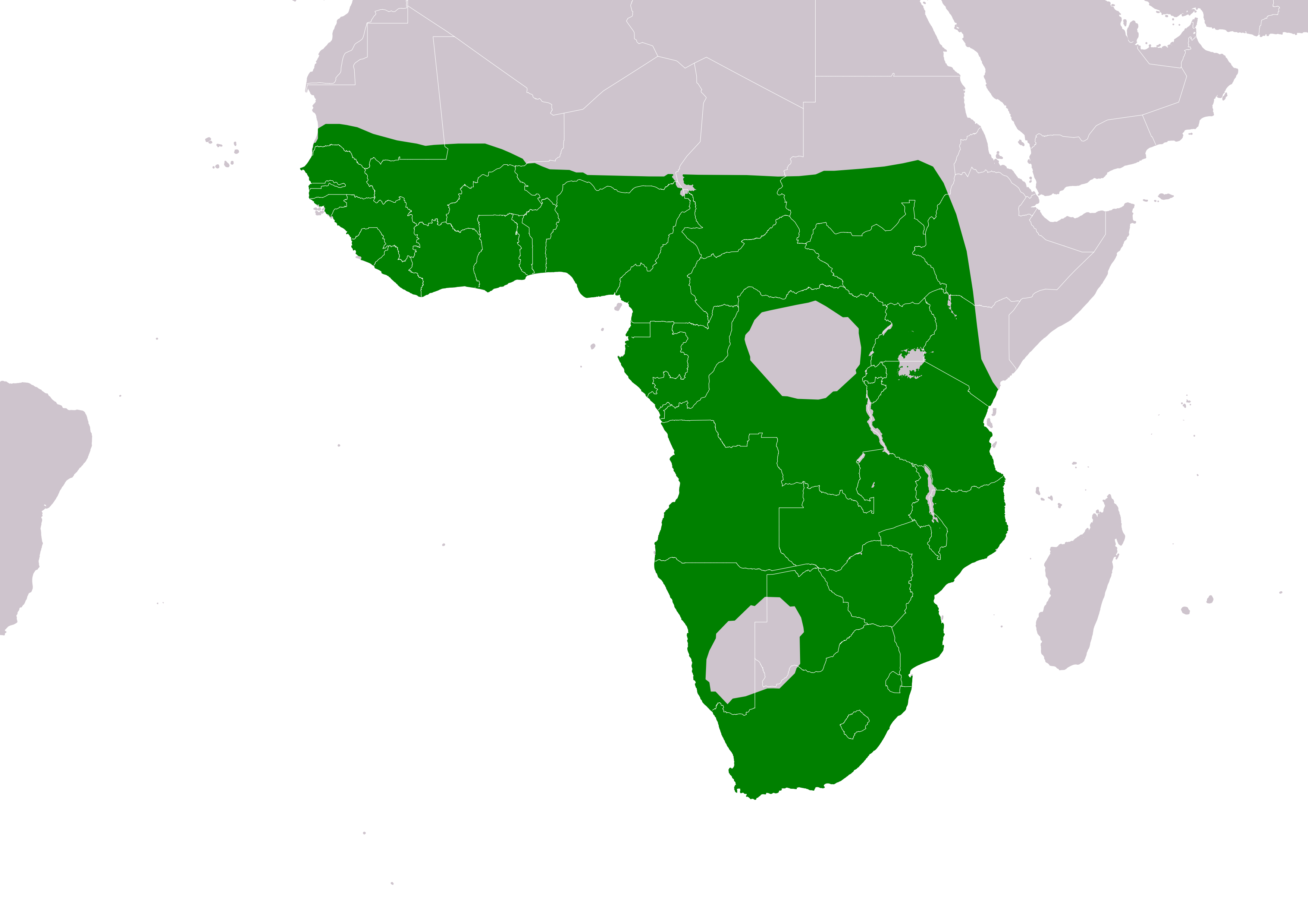 Distribution map of spur-winged goose (Plectropterus gambensis) according to IUCN version 2019-2 ; key: Legend: Extant, resident (#008000)